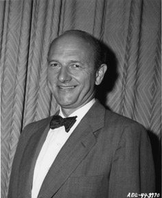 This is an image of David E. Lilienthal, who chaired the United States Atomic Energy Commission from 1947 to 1950. This photo was probably taken about the time that Lilienthal was nominated for the post by President Harry S. Truman on October 28, 1946, or about the time of his confirmation by the United States Senate on April 9, 1947.